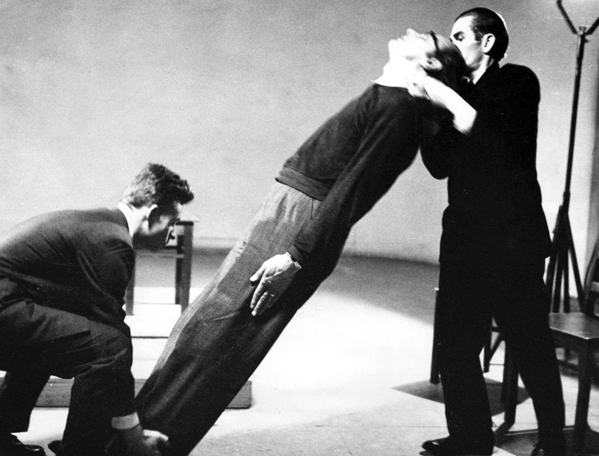 Photograph of the stage show of the Finnish hypnotist Olliver Hawk (to the right).